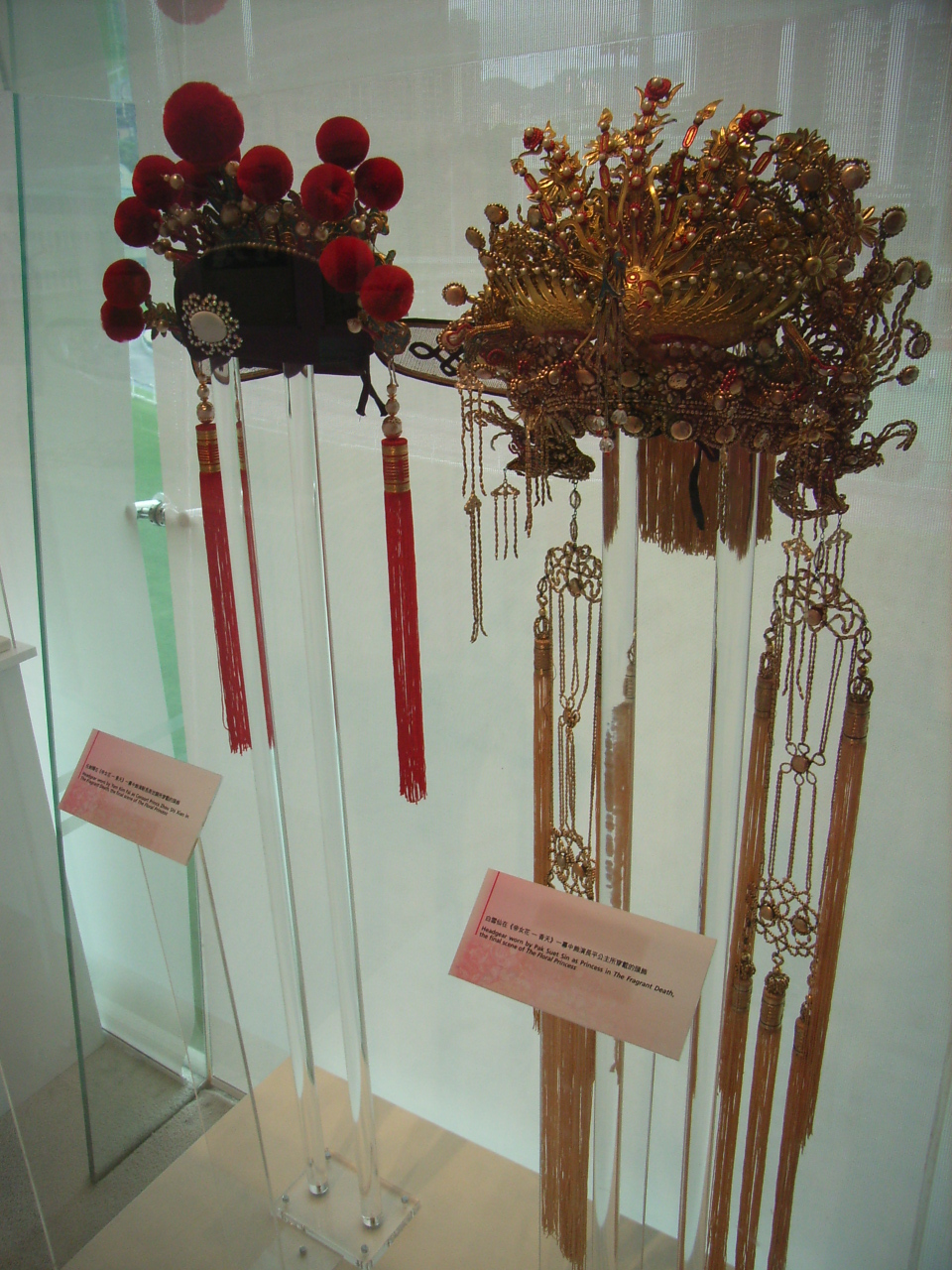 任白筋 粵劇戲寶 1957年首演 帝女花: 樹盟 Oath under the twins tree 辭殿 Depature 香劫 Princess' sufferings 庵遇 Reunion at the nunnery 上表 Negotating with the Qing Emperor 香夭 The fragrant death 殉國